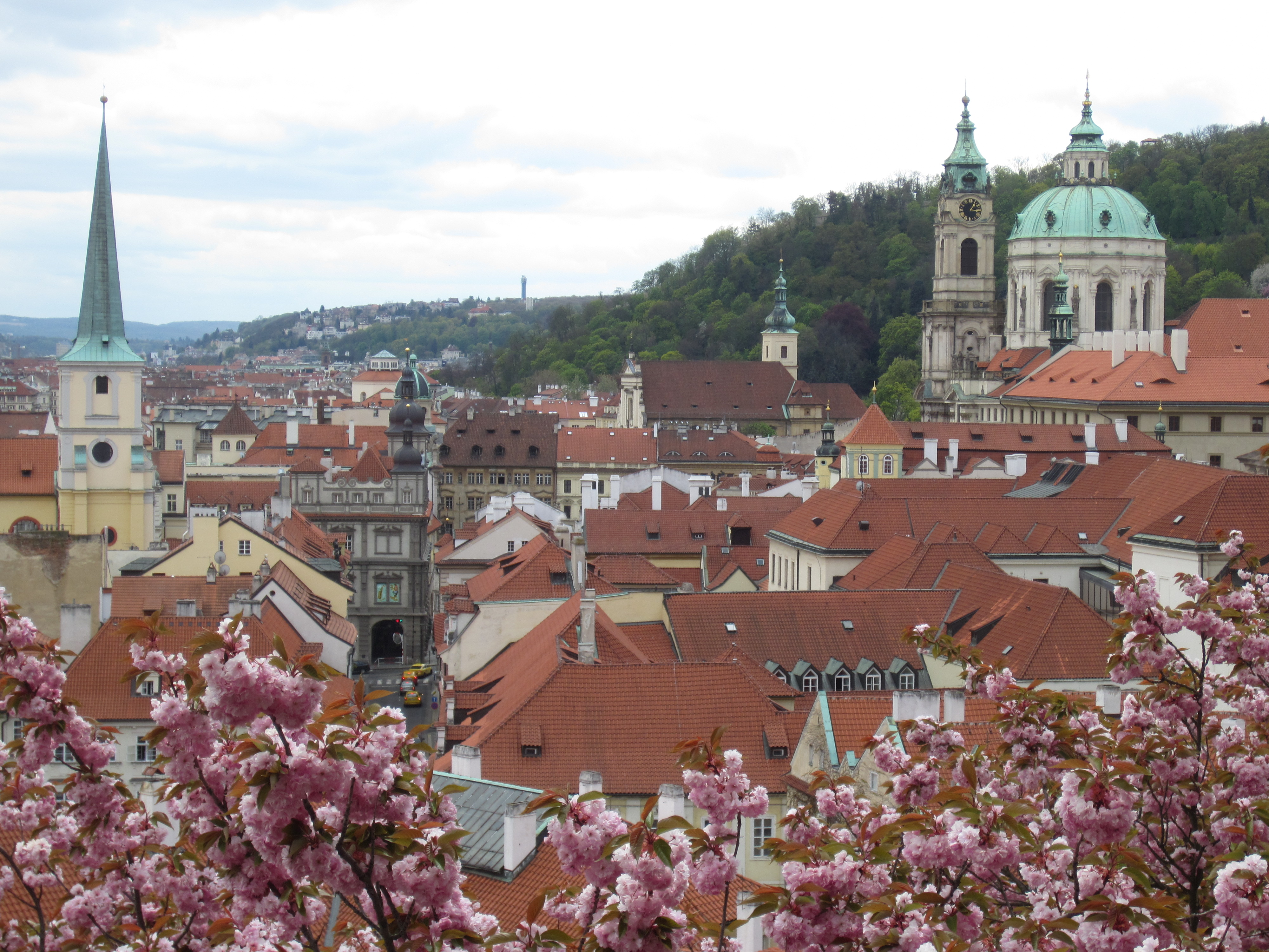 Prague, Czech Republic, April 2016